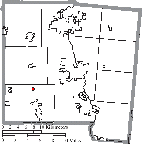 Map of the municipal and township boundaries of Miami County, Ohio, United States, as of the 2000 census, with the location of the village of Ludlow Falls highlighted. Township borders are shown only in unincorporated areas in order to differentiate incorporated and unincorporated areas more clearly.